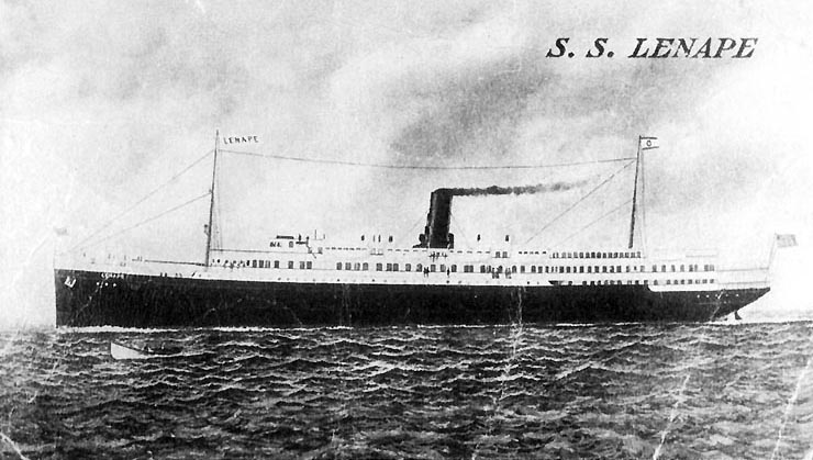 S.S. Lenape (American Passenger Ship, 1912) Halftone reproduction of a pre-World War I artwork. This steamer served as USS Lenape (ID # 2700) in 1918. Courtesy of Boatswain's Mate First Class Robert G. Tippins, USN (Retired), 2005. U.S. Naval Historical Center Photograph.